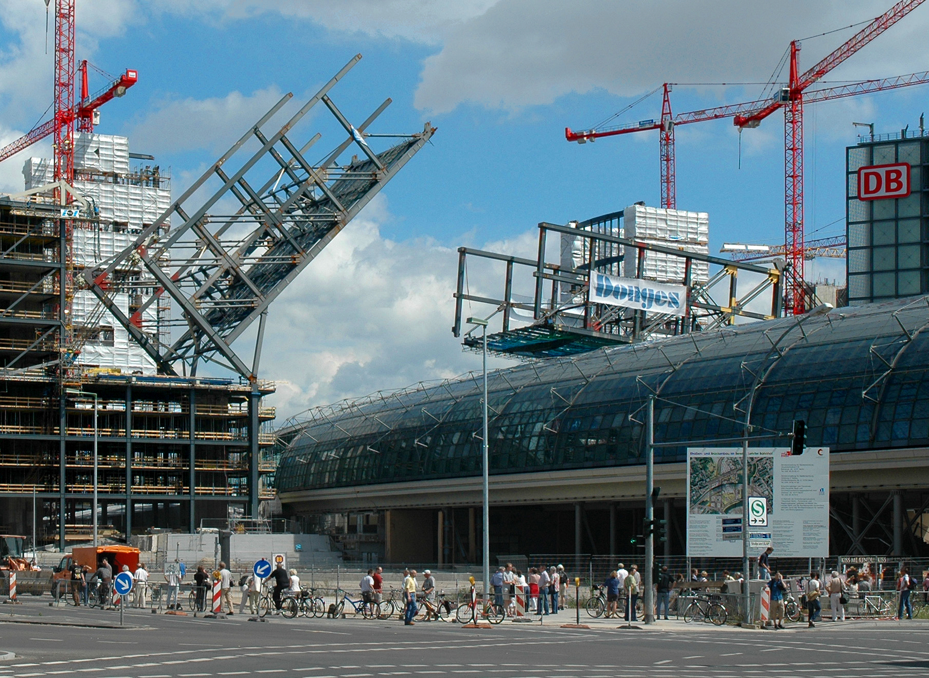 Lowering of the western bridging segments during the construction of Berlin Hauptbahnhof. This method was a worldwide premiere.